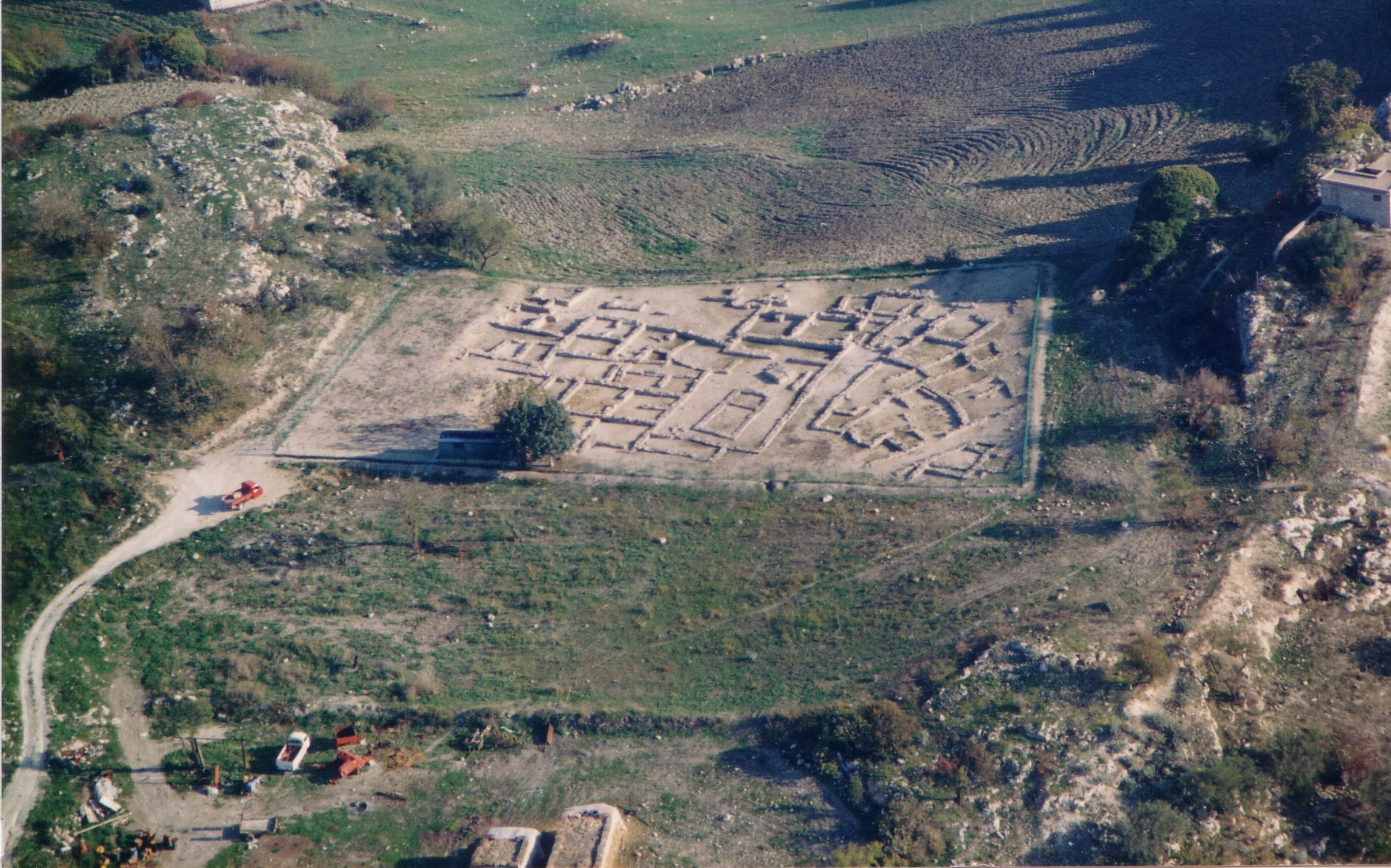 Vassallaggi: archeological site in the Italian province of Caltanissetta